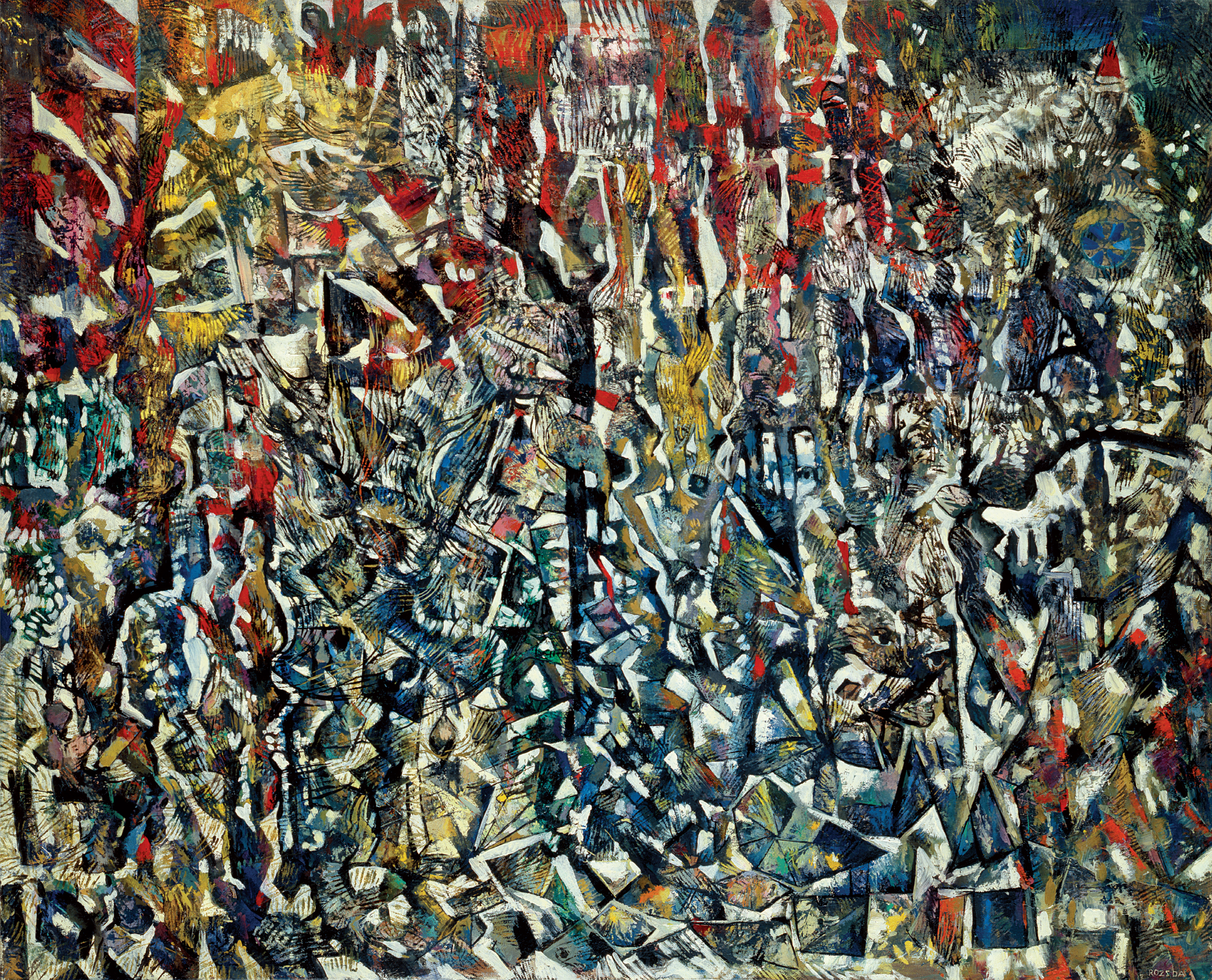 surrealism painting